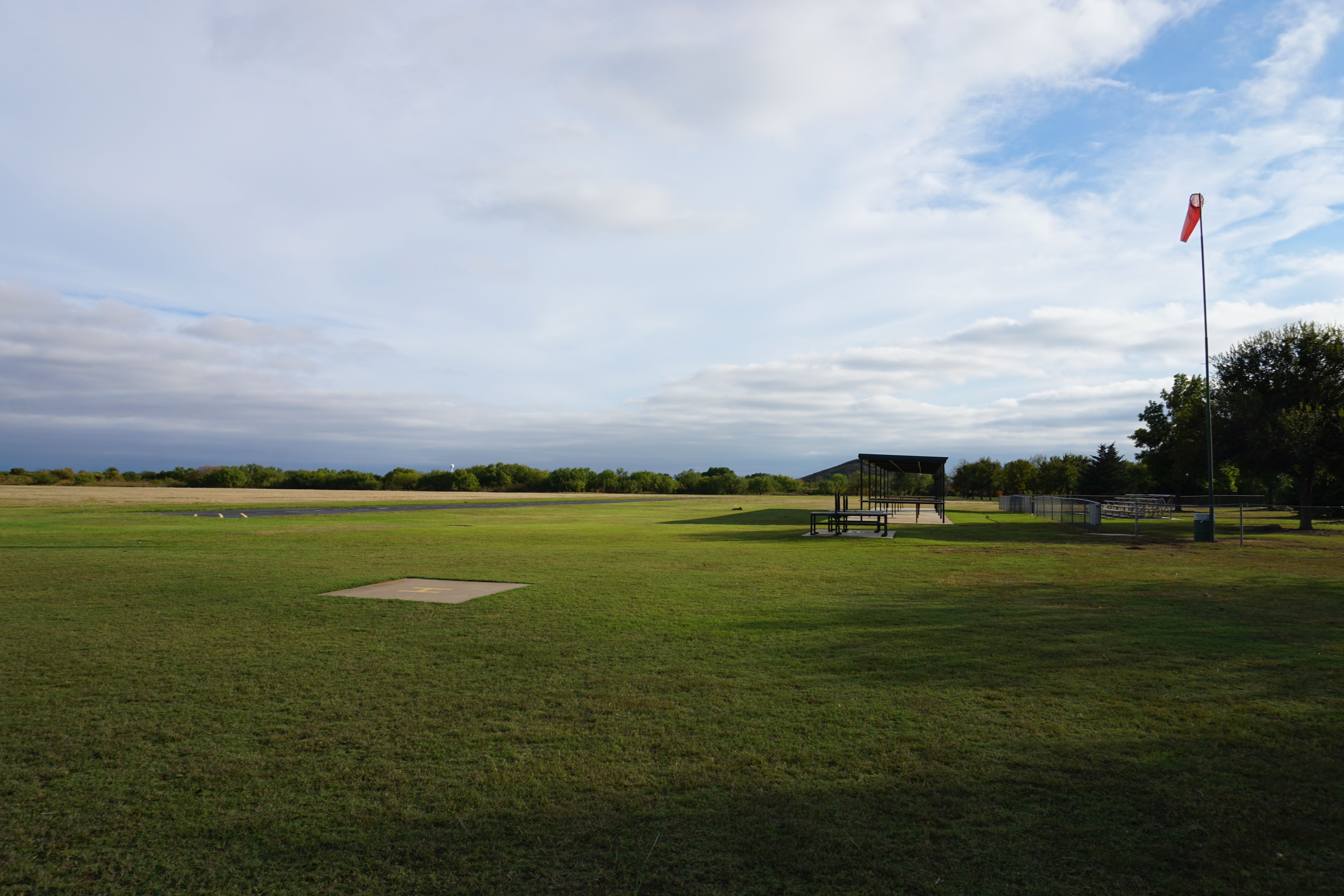 The radio-controlled airfield at Lake Wichita Park in Wichita Falls, Texas (United States).